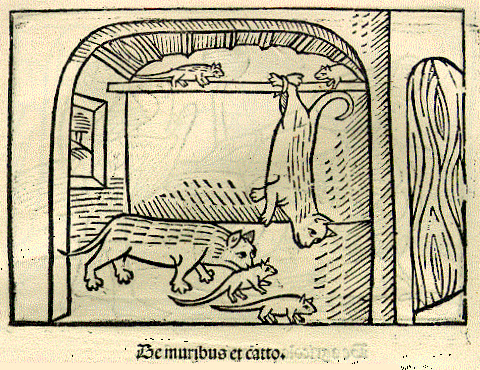 An illustration of "The Cat and the Mice" from a 1501 German edition of Aesop's Fables